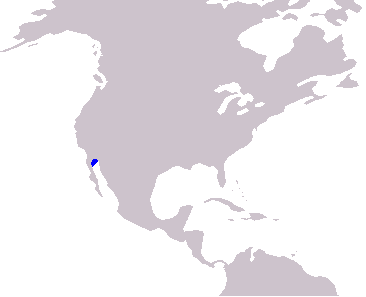 Range map for the vaquita (Phocoena sinus), a critically endangered porpoise species endemic to the northern part of the Gulf of California. It is considered the smallest and most endangered cetacean in the world. User:Pcb21 after User:Vardion. See Wikipedia:WikiProject Cetaceans for further details